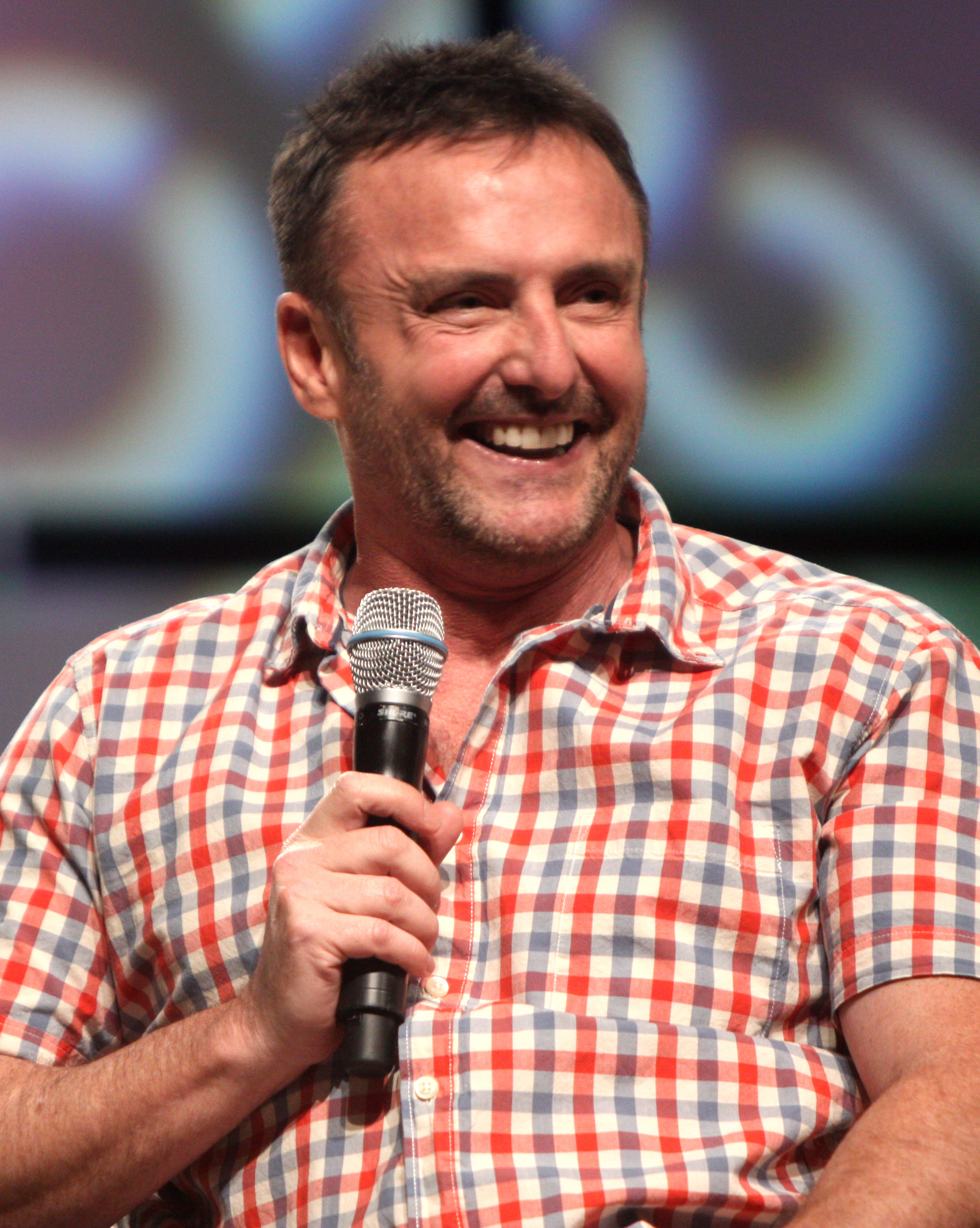 David Franklin at the 2013 Phoenix Comicon in Phoenix, Arizona.